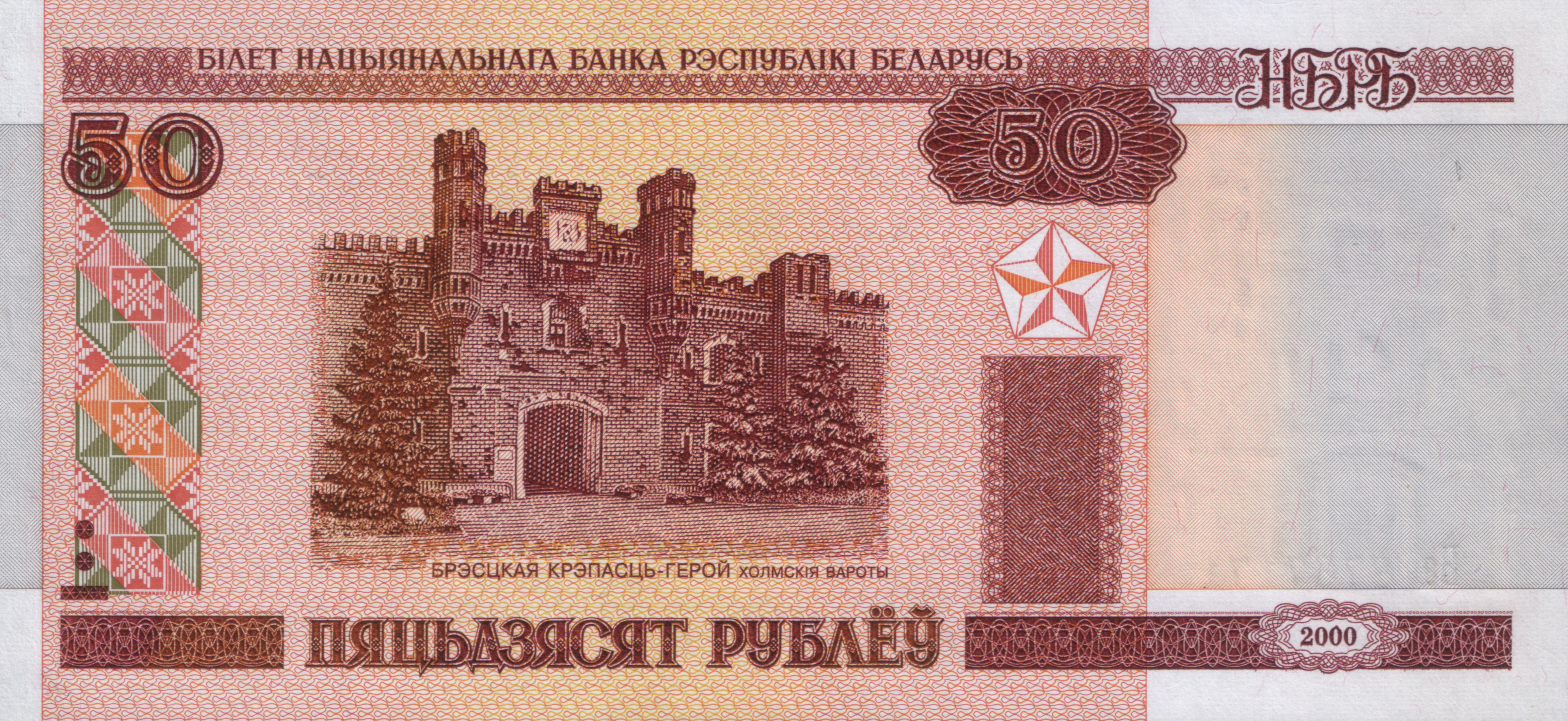 50 roubles of Belarus (2010)